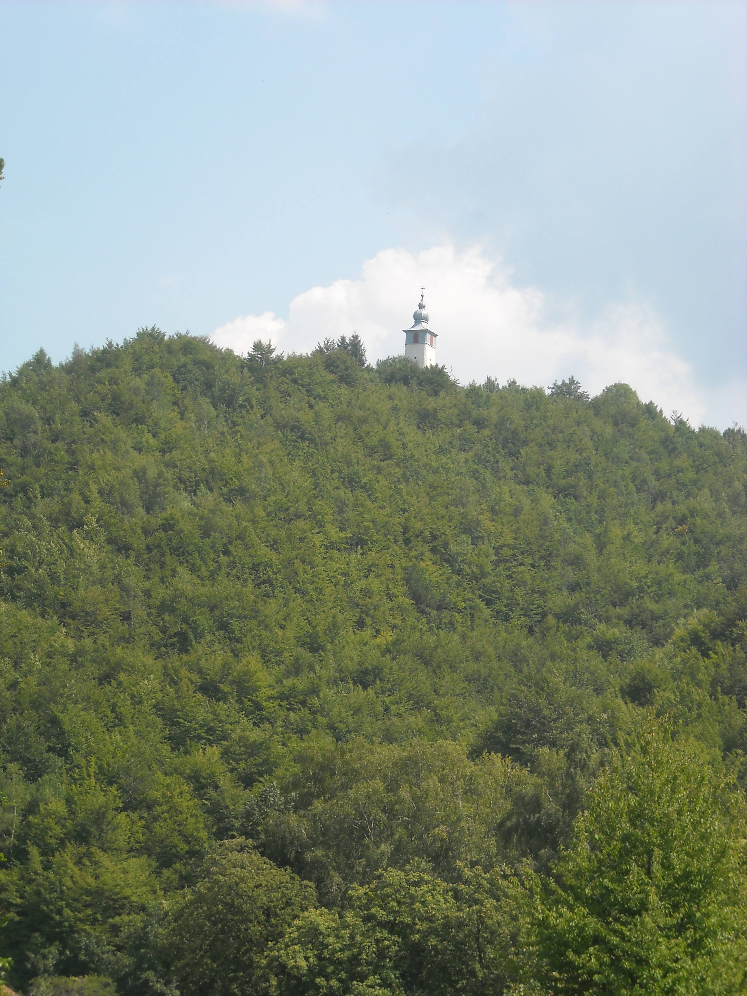 Orthodox church in Săcărâmb, Romania, as seen from the foot of the hill